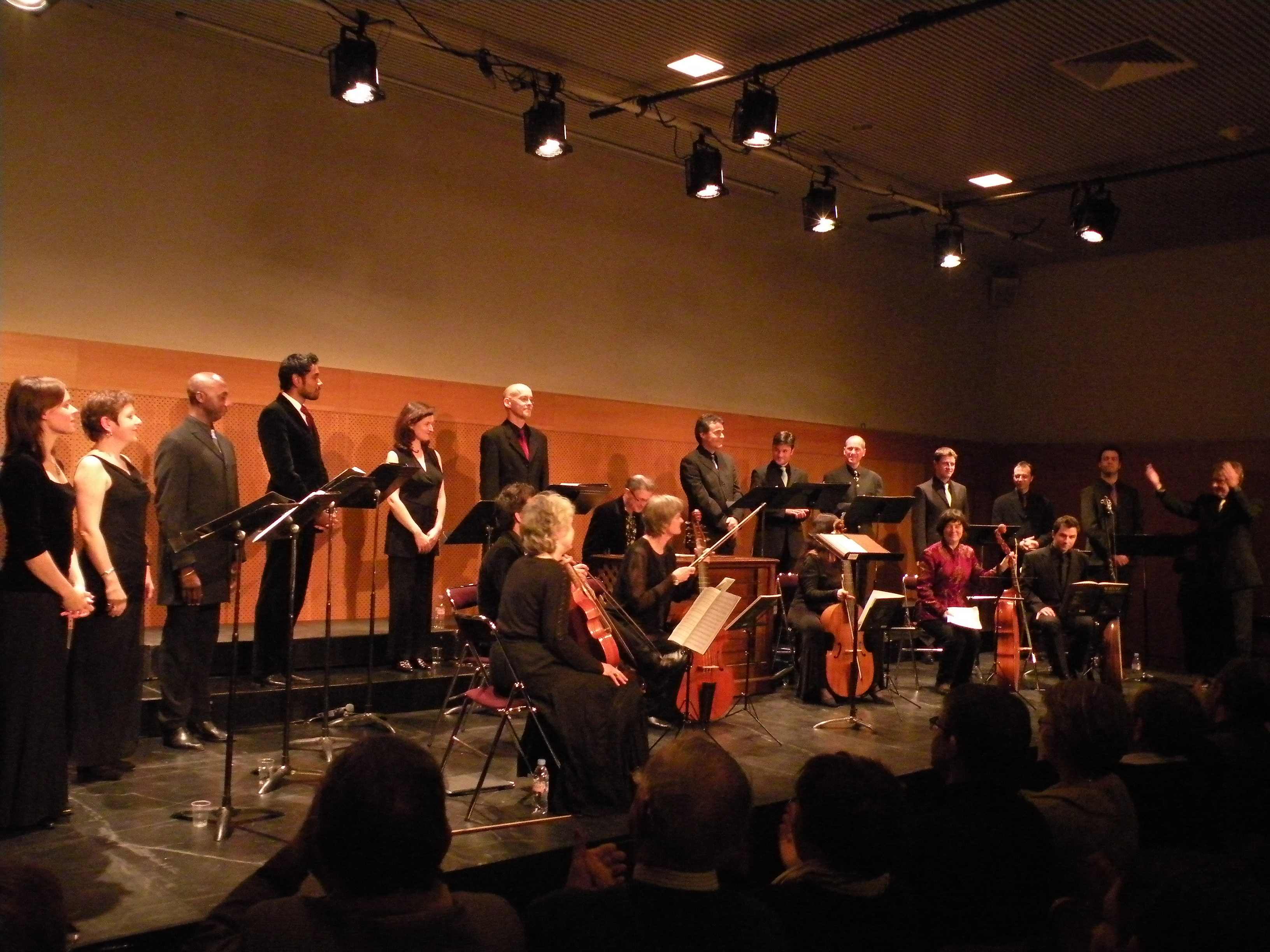 Sagittarius, on 1st February 2009 during La Folle Journée in Nantes.